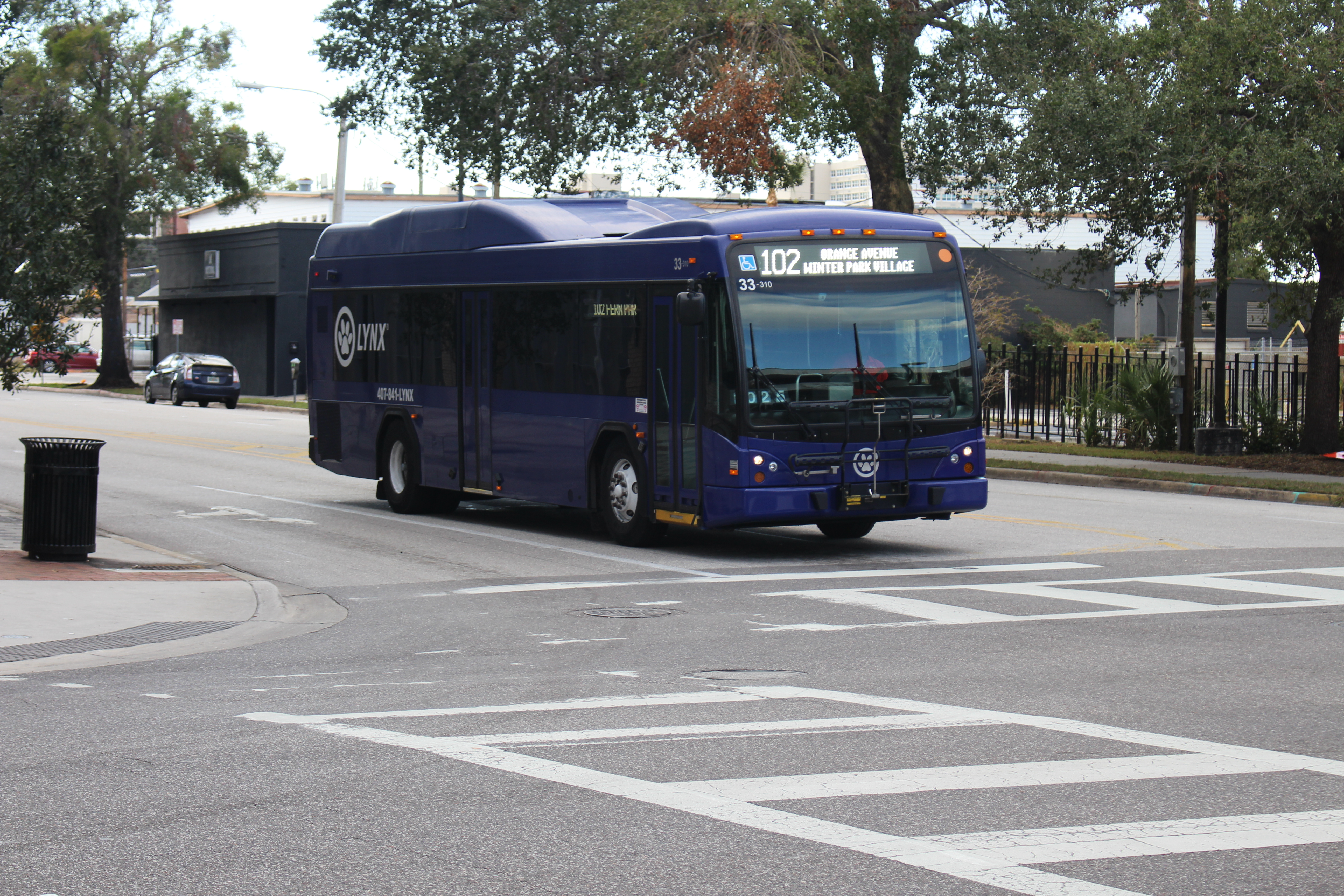 Lynx 102 bus, Orlando, Orange County, Florida